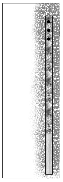 Graphic for the Kanaleko hiru txirlo